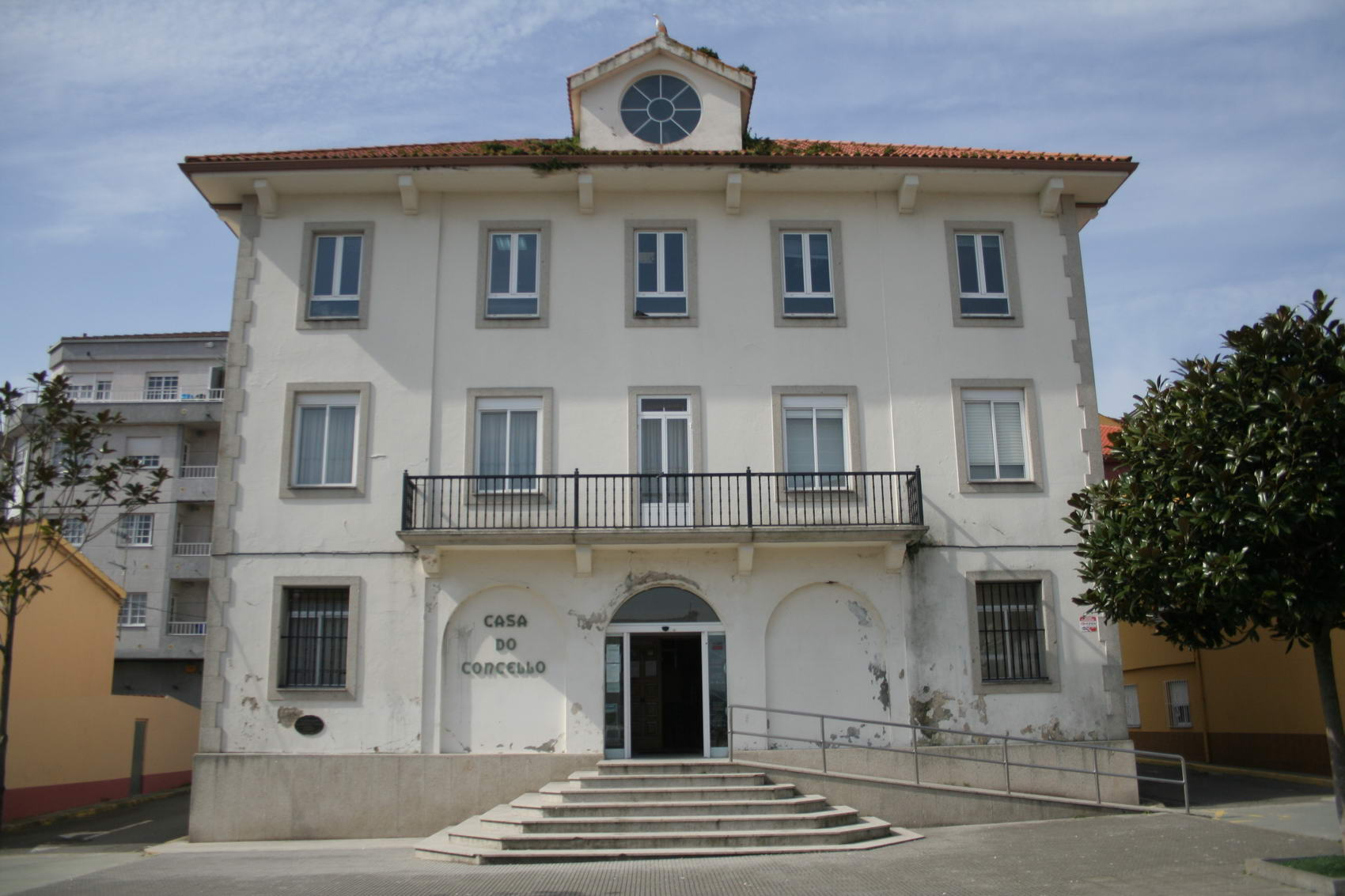 Town Hall in Camariñas (Spain)